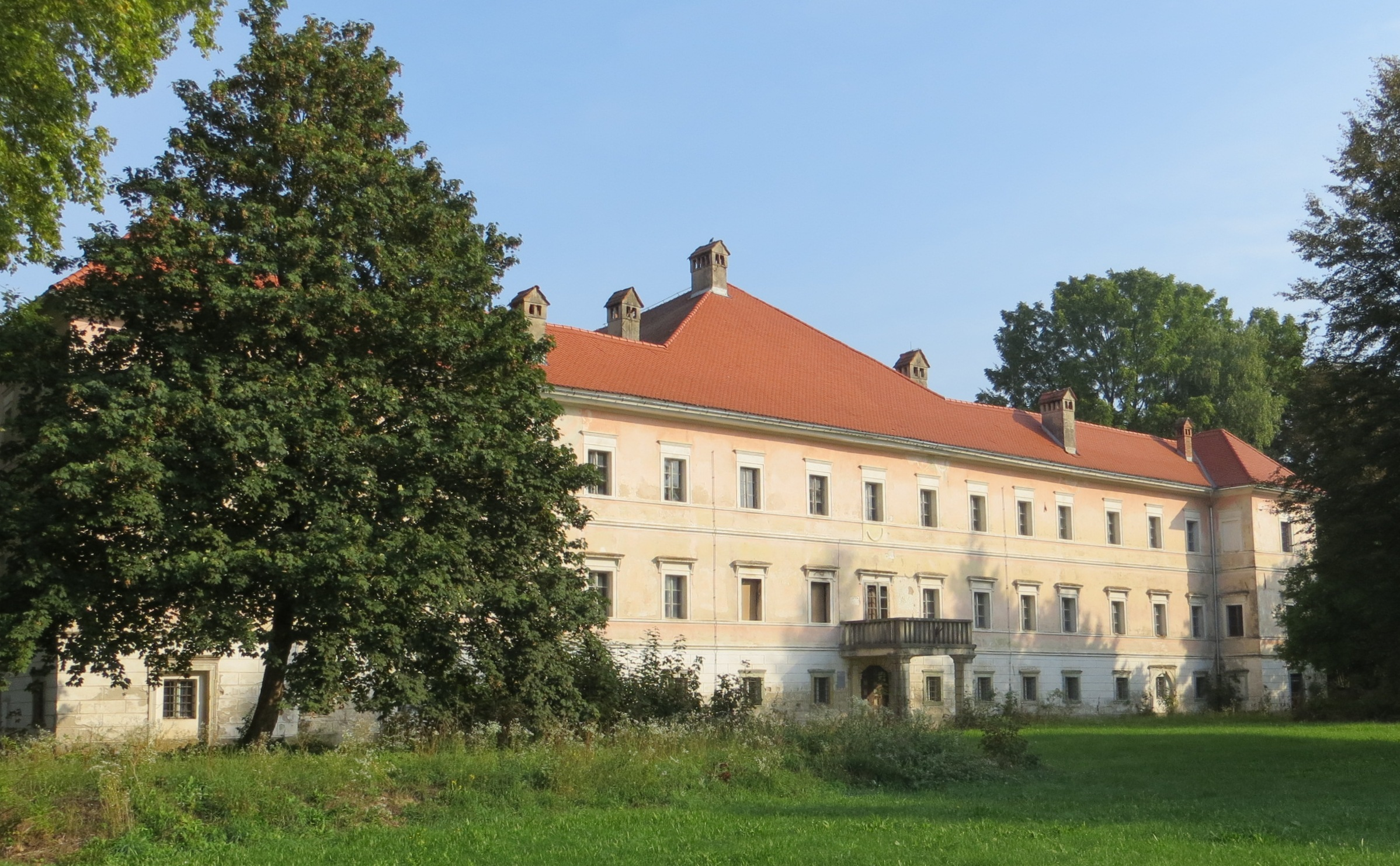 Lazzarini Manor in Valburga, Municipality of Medvode, Slovenia